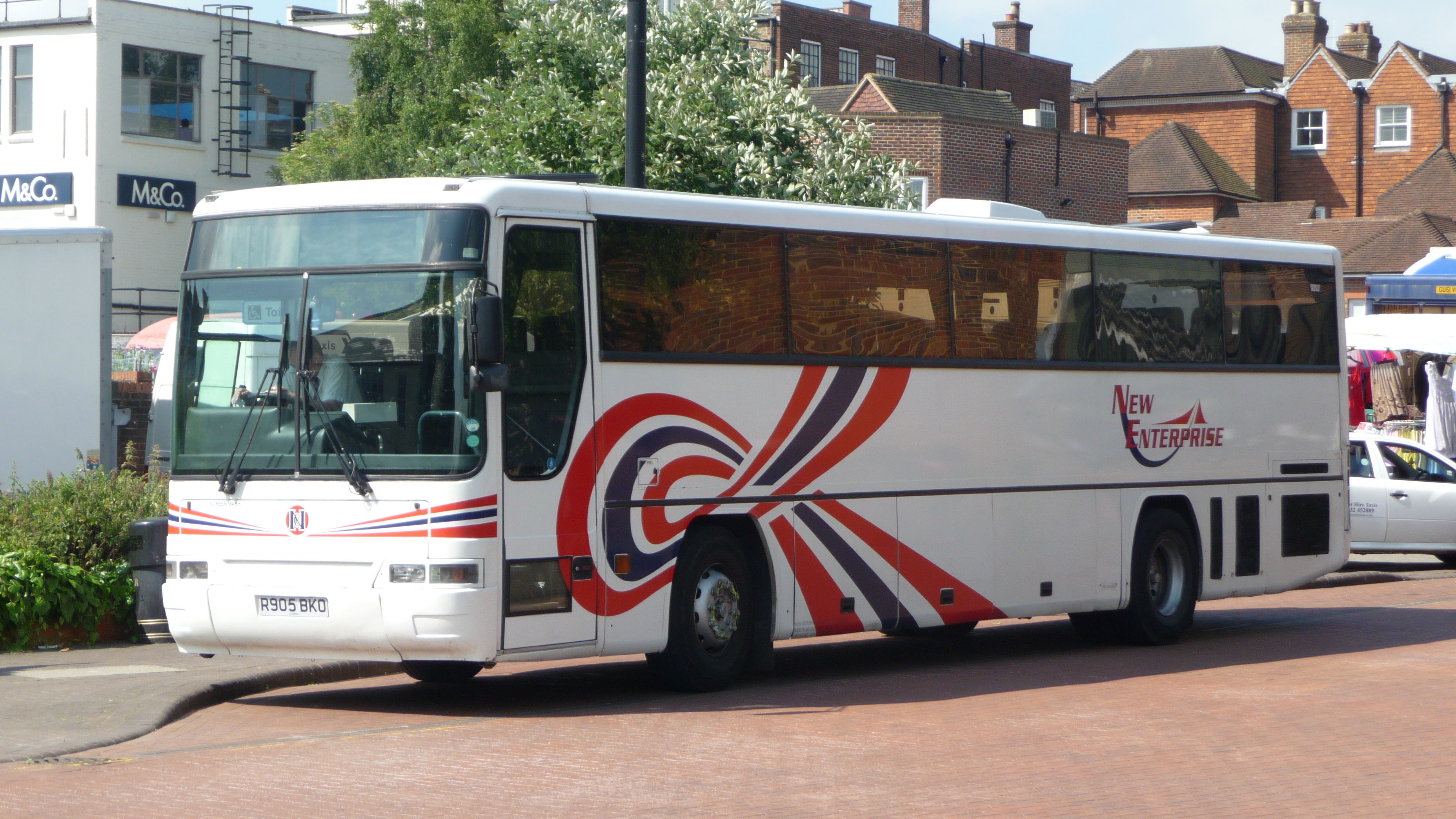 New Enterprise Coaches 2905 (R905 BKO), a DAF SB3000/Plaxton Premiere, in Sevenoaks bus station, Kent, laying over.